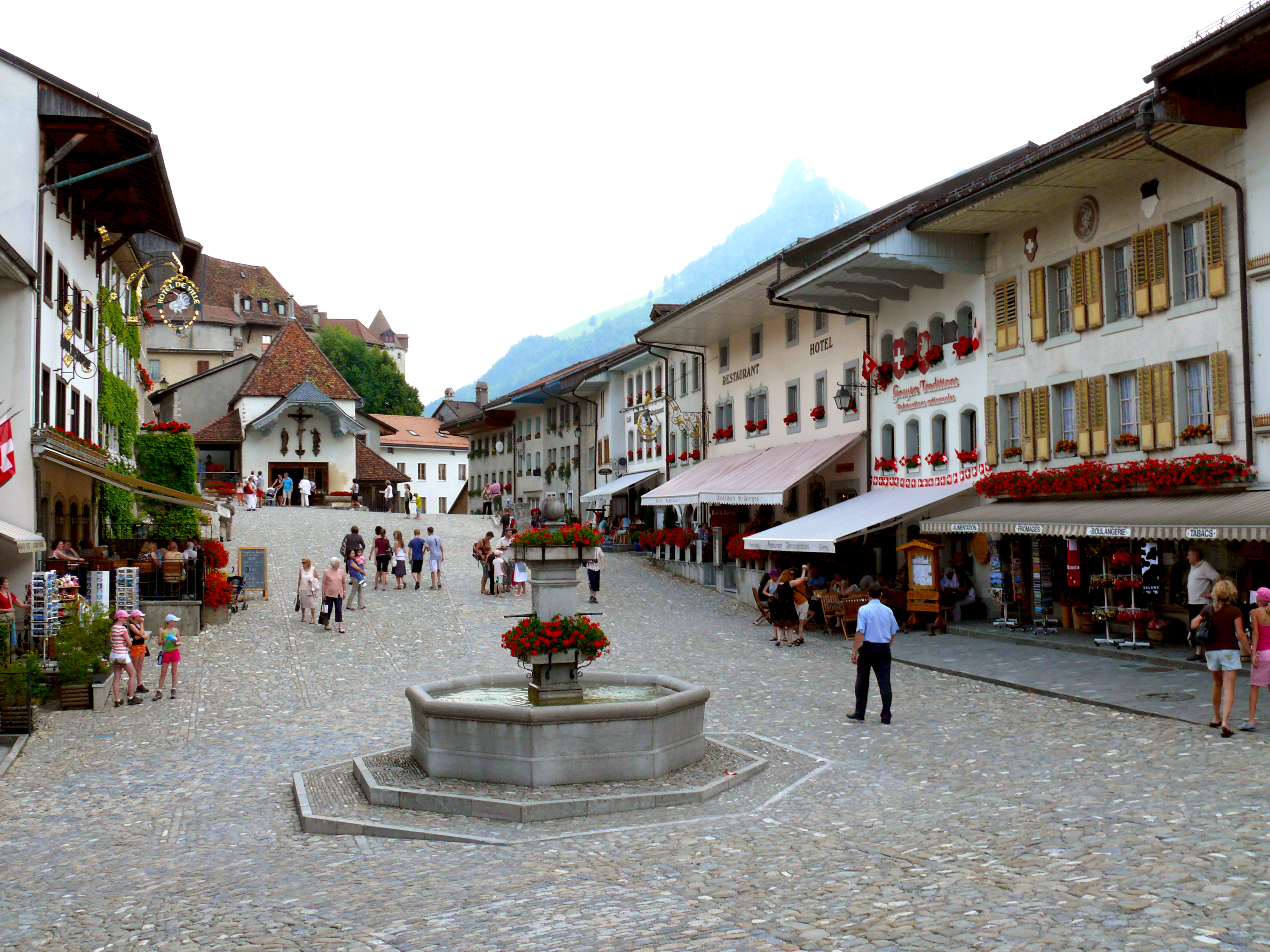 The main street of the medieval city of Gruyères as it leads up to the Château.